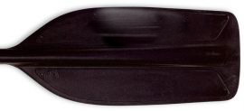 Paddle